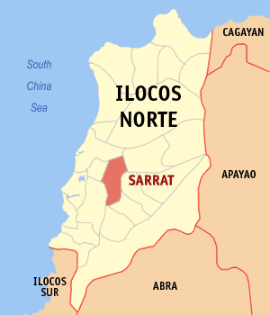 Map of Ilocos Norte showing the location of Sarrat